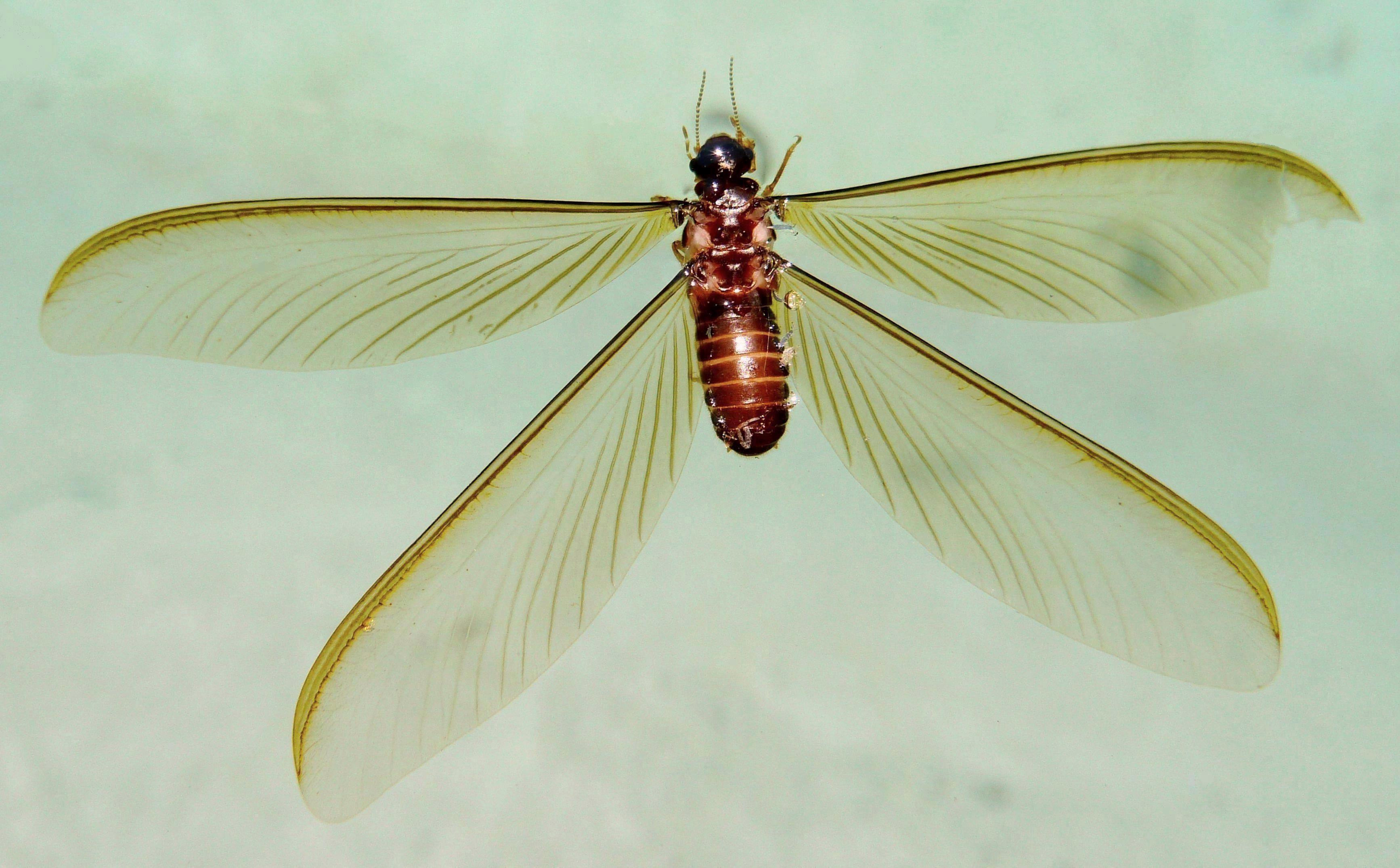 Hodotermes mossambicus alate trapped in water by surface tension